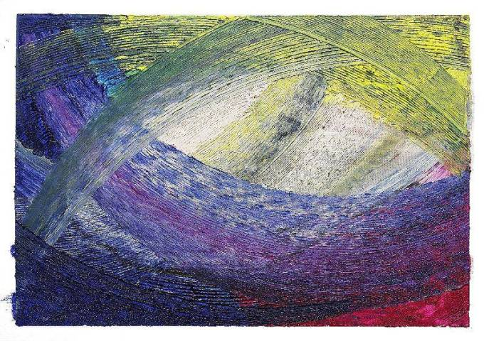 water, oyster, and pearl, 2006, oil on canvas, 100cm x 140cm, magnetic paint displacement (Magnetic Painting)